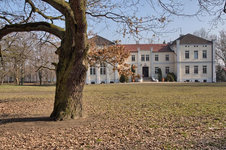 Broniewice pałac